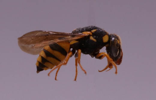 Celonites abbreviatus abbreviatus (Villars, 1789) collected in 29 vii 1964 in Savines (French Alps) by Martin Cooper ; British Natural History Museum Specimen ; Catalogue number : BMNH(E)-013628540